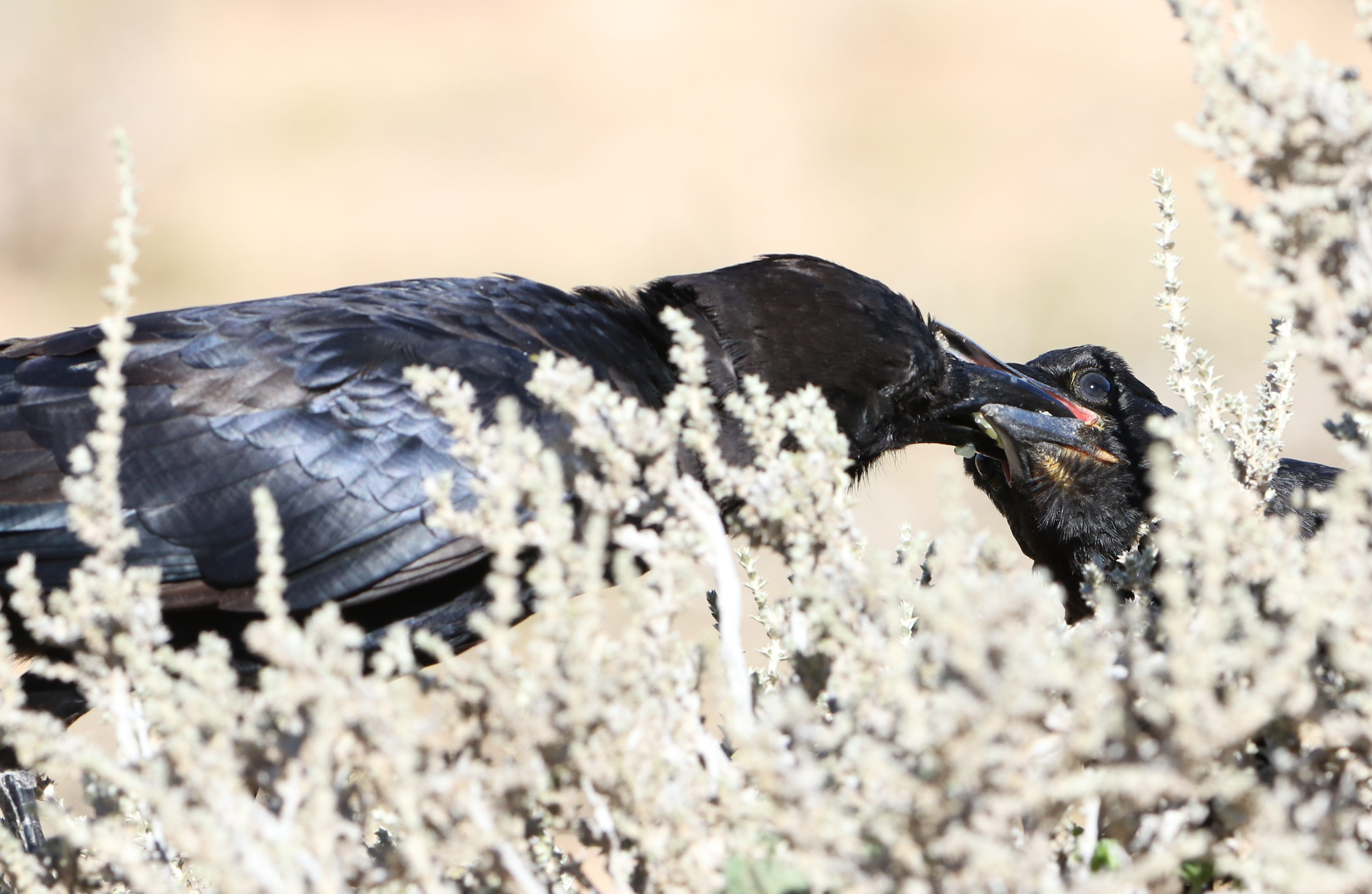 Cape crow, Corvus capensis, at Kgalagadi Transfrontier Park, Northern Cape, South Africa